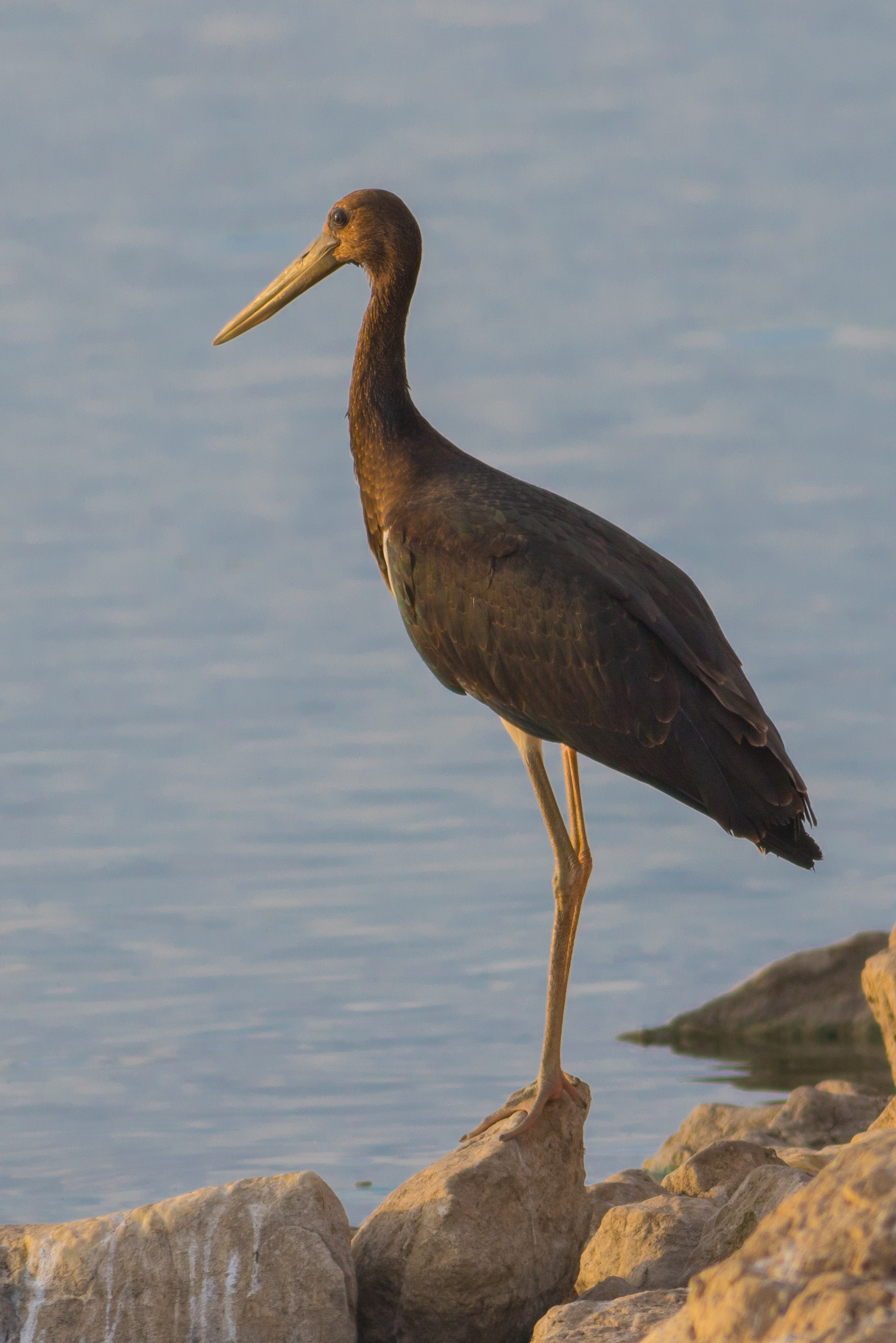 Ciconia nigra, juvenile. Israel.